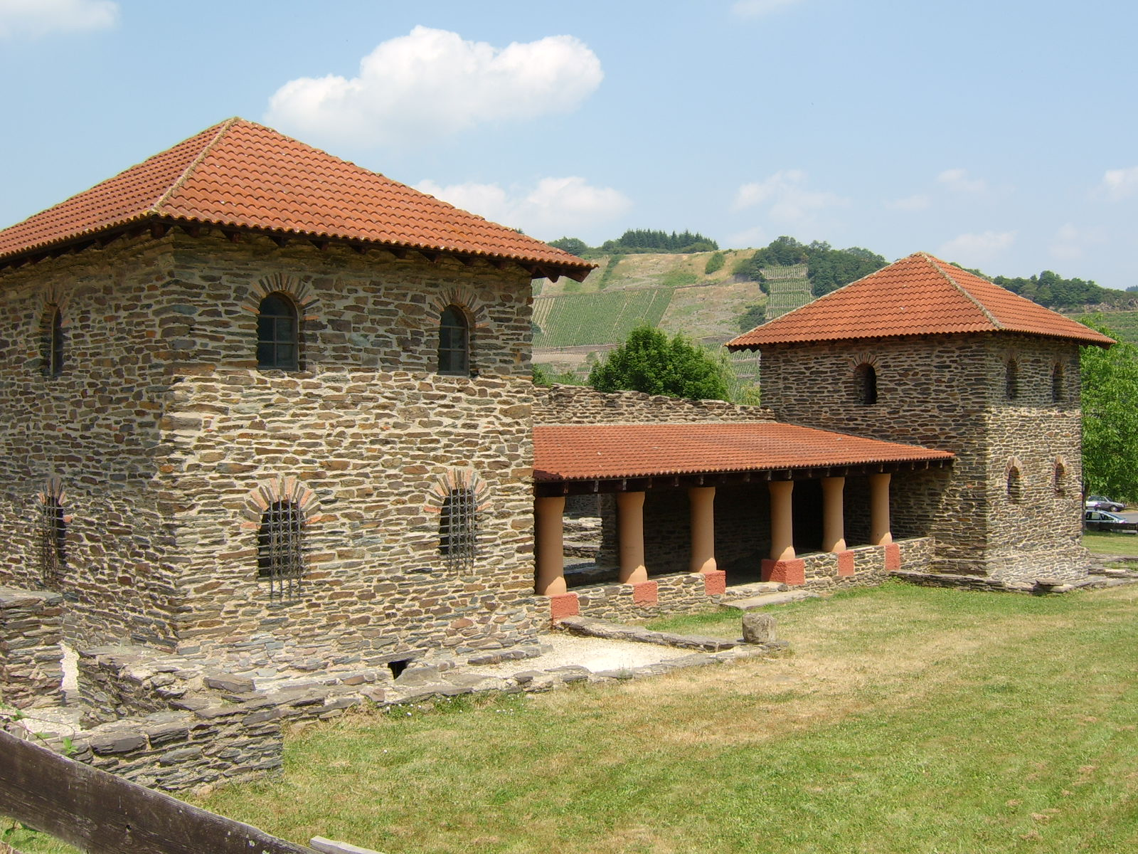 Villa Rustica in Mehring, a 2nd century Roman villa